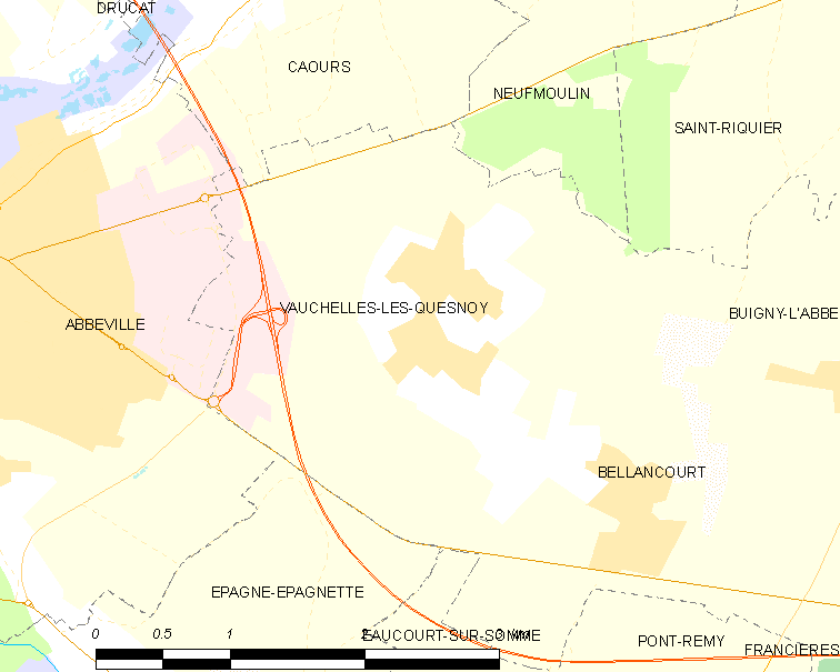 Map of French municipality Vauchelles-les-Quesnoy